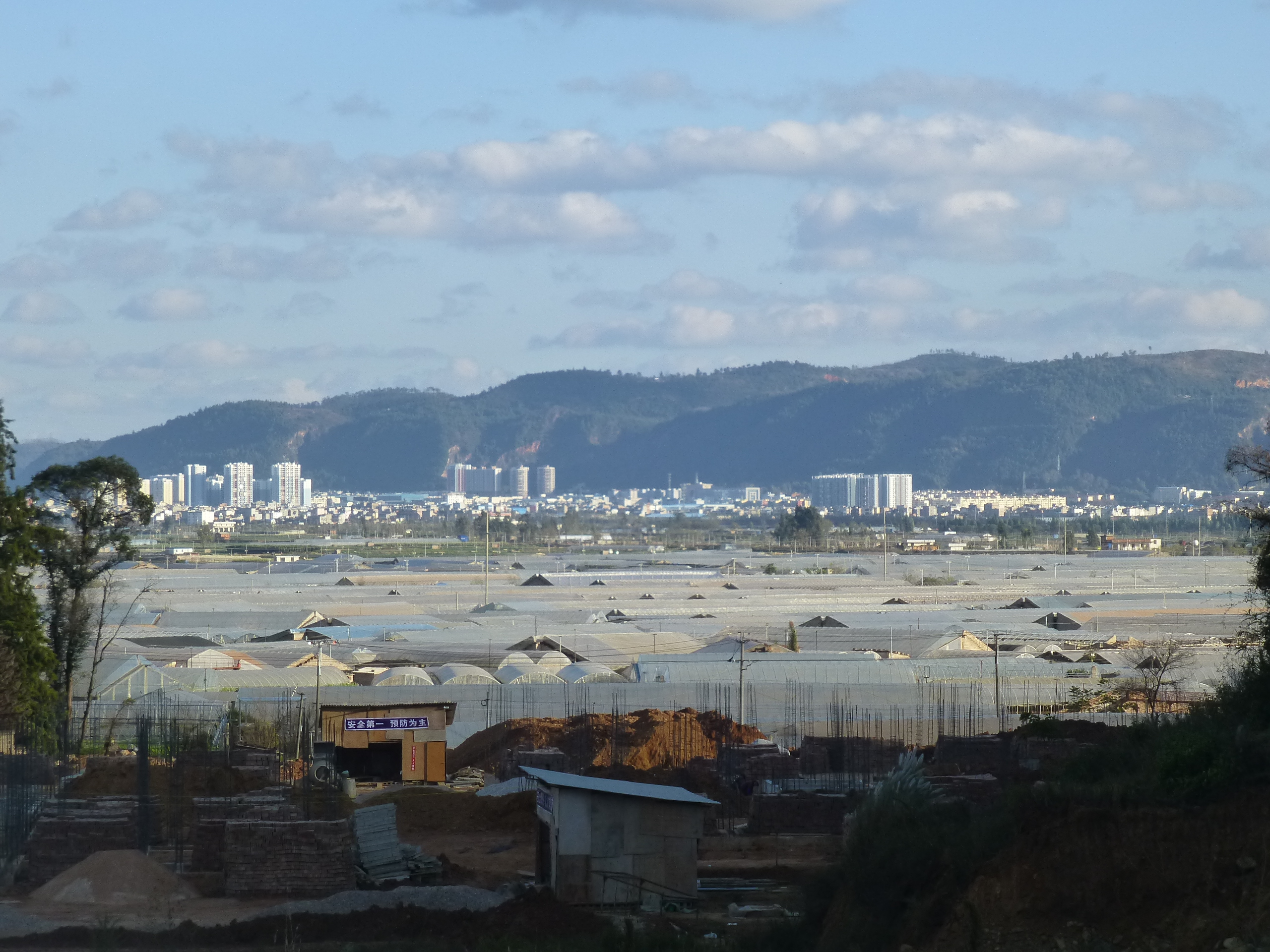 The county seat Tonghai County, Yunnan, against the background of mountains south of it, seen from a hill in Xingmeng Mongol Ethnic Township, WNW of town.